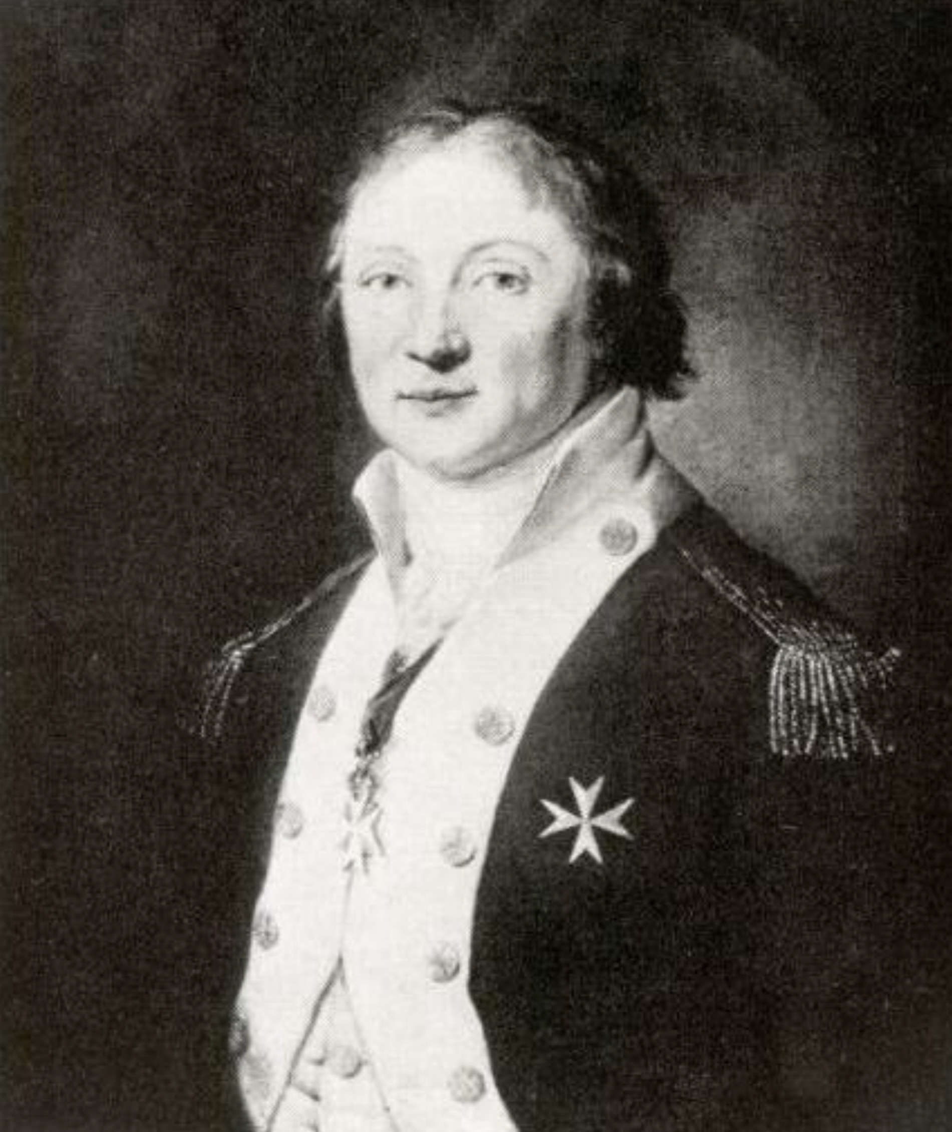 Lost Art-ID 115017 Permalink Artist Graff, Anton Title Portrait of major Ch. L.v. Kaphengst Type of object Painting Generic terms Male person / figure Measures Height: 64.00 cm Width: 54.00 cm Material / Technique Leinwand Inventory number B 227 Description Tafelmalerei: Bild: Bestand Gemäldegalerie im ehemaligen Kaiser-Friedrich-Museum (Bodemuseum) Provenance (frühere) Verwaltung: Berlin; (öffentliche) Sammlung; Staatliche Museen; Gemäldegalerie; Inv. Nr. B 227; Besitzzeit; bis um 1931; Zugangsart: Ankauf; Zugangsdatum: 1913/1931; Vorbesitzerin; Kohlow (bei Frankfurt ); (private) Sammlung; Besitzzeit: bis 1913/1931 [Erworben zwischen 1913 und 1931 von Frau von Kaphengst-Kohlow, Kohlow bei Frankfurt/Oder, alte Kat. Nr. 1034 B irrtümlich vergeben (1938 nachträglich inventarisiert). Search Requests Stiftung Preußischer Kulturbesitz / Staatliche Museen zu Berlin / Gemäldegalerie